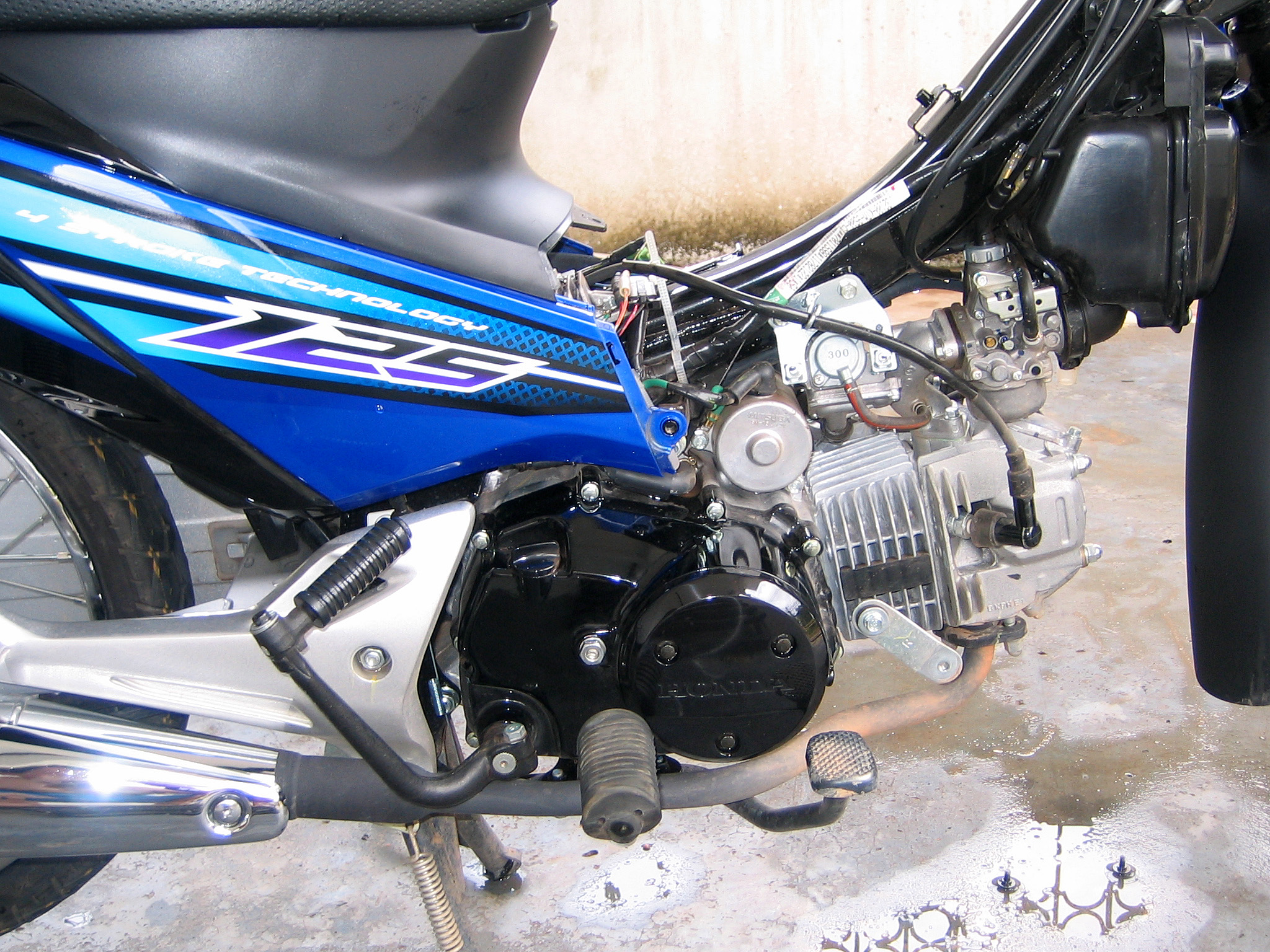 Honda Wave 125 S motorcycle (underbone) with plastic cover removed to show the engine.